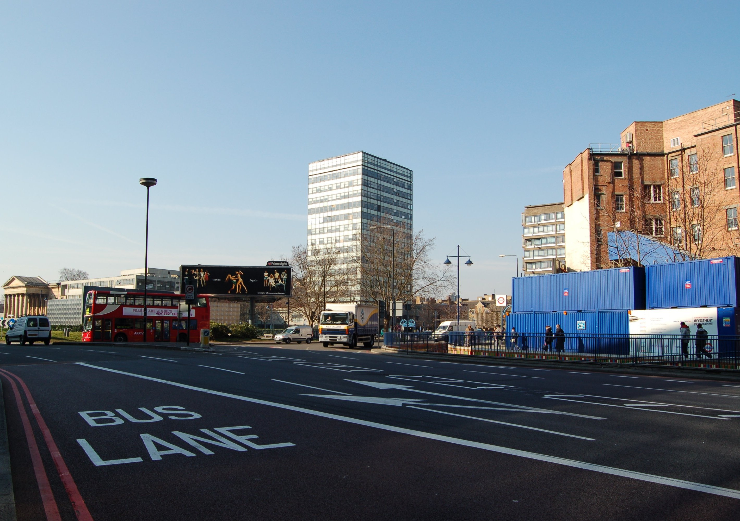 (C) 2006, Elephant and Castle from the North East, 24 March 2006.